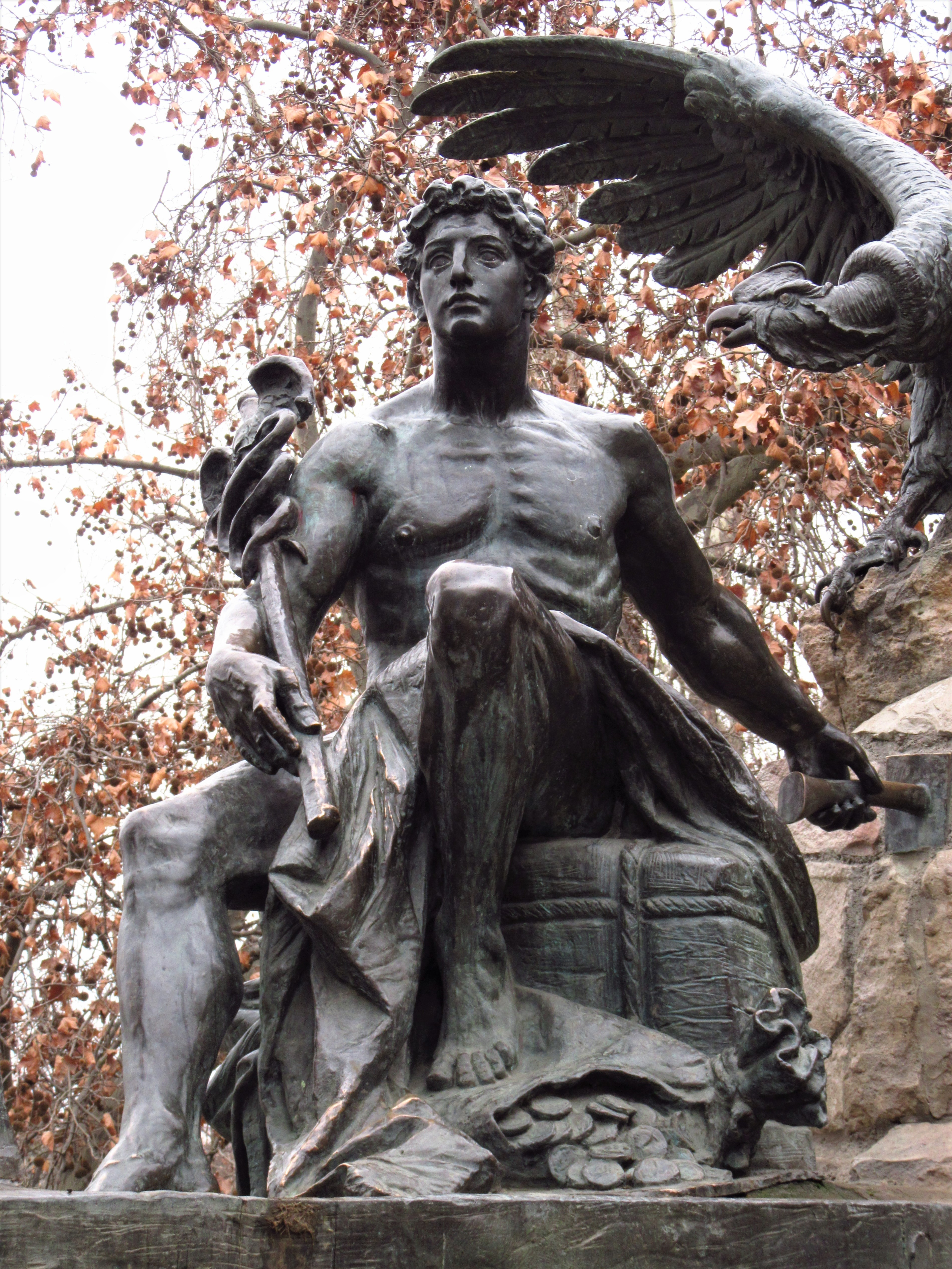 2017 in Santiago de Chile